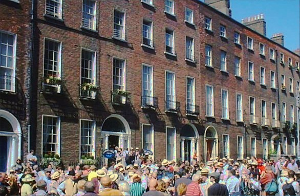 The crowd in Great George Street, Dublin, on the morning of Bloomsday 2004, at the street party provided by the James Joyce Centre.